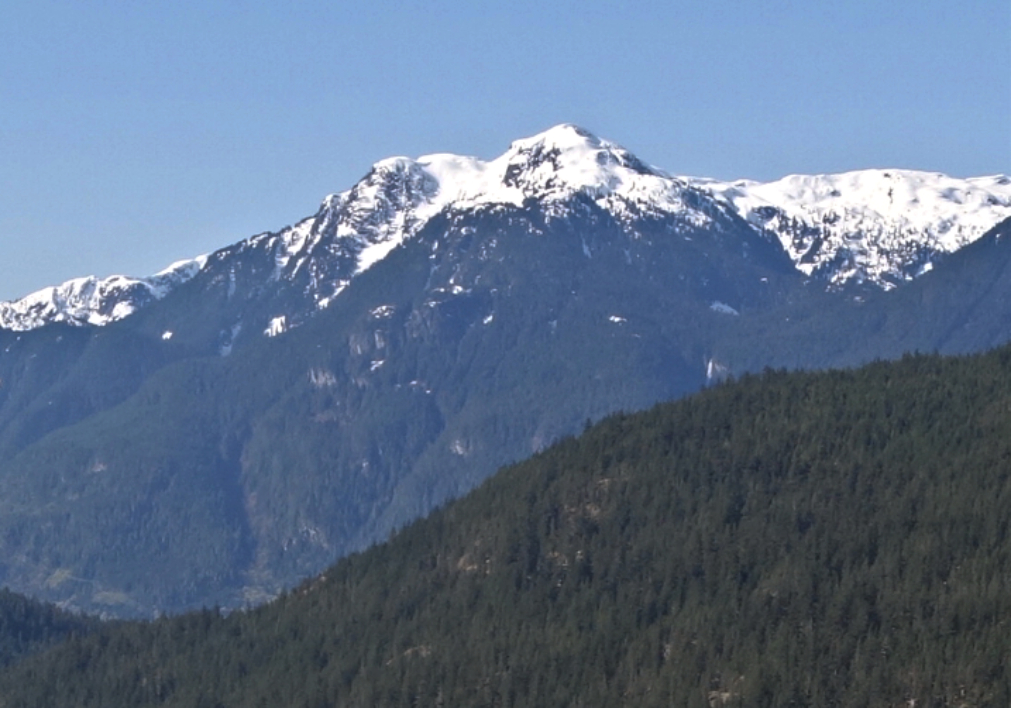 Mount Thyestes in Tantalus Range seen from Sea to Sky Highway